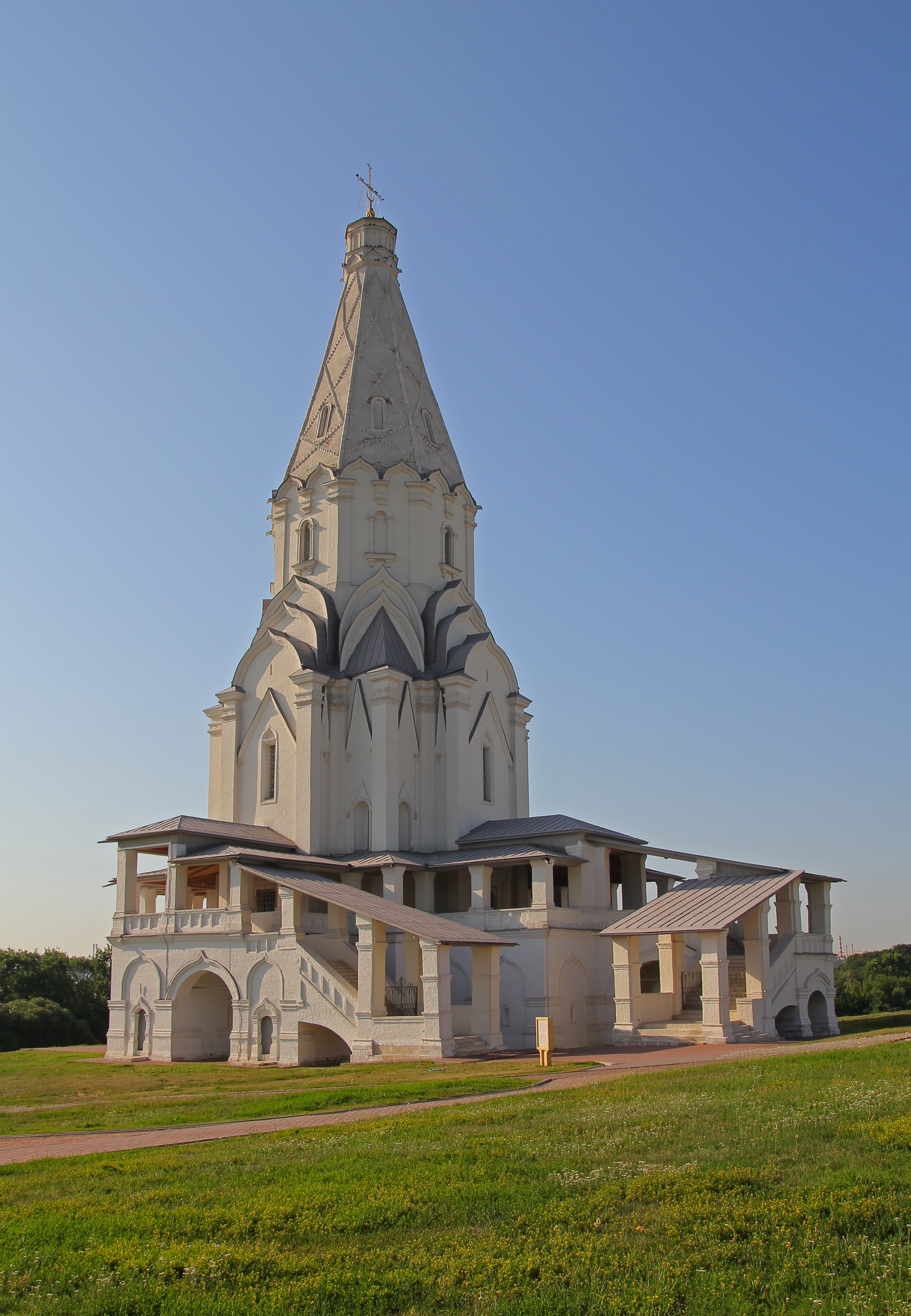 Kolomenskoe Museum Reserve in Moscow. The Ascension Church.